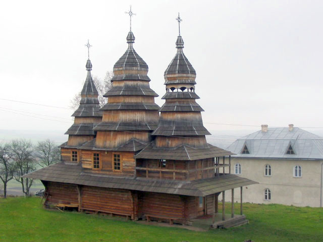 Traditional Ukrainian wooden church at the site of Old Halych, dating from the 16th century.